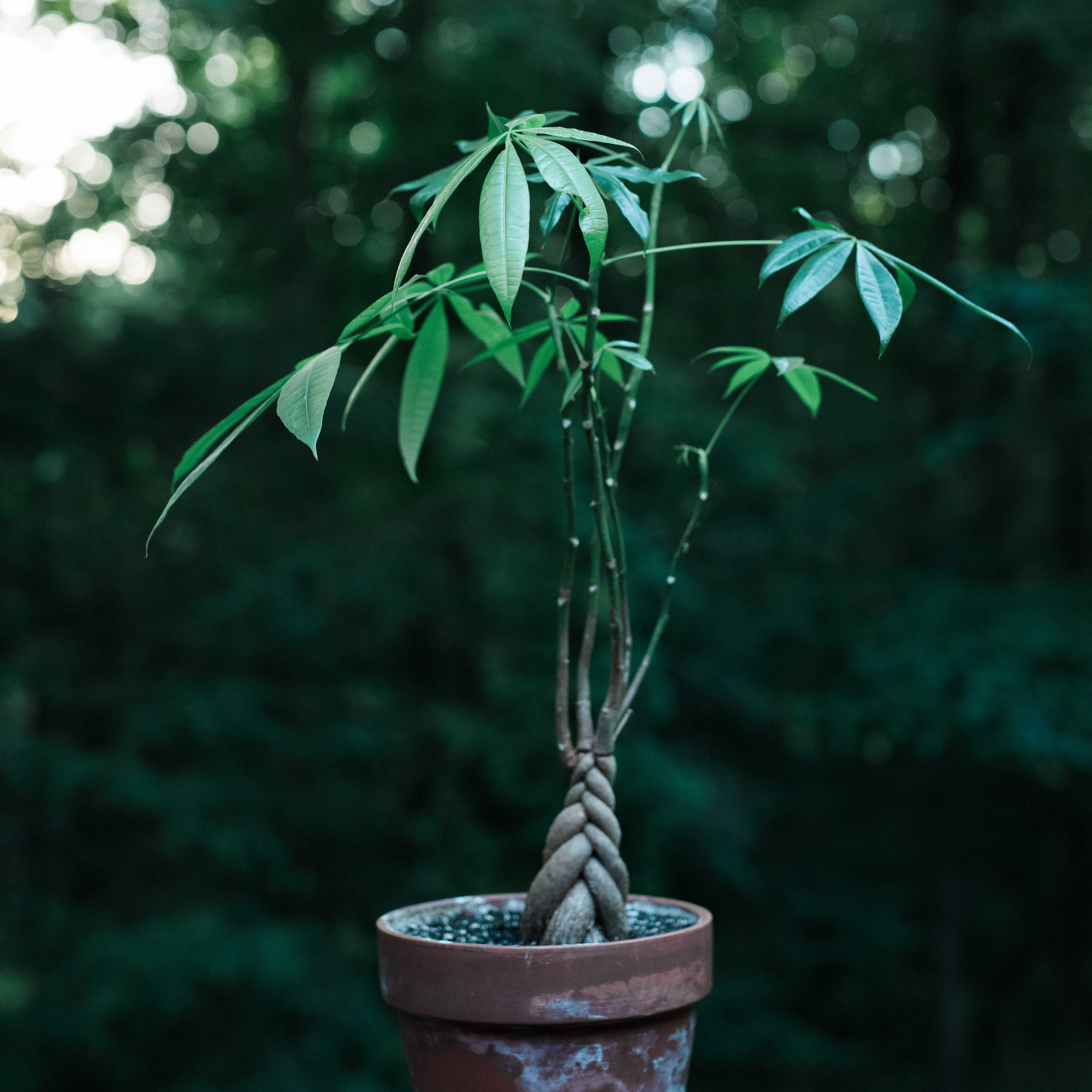 Ornamental money tree.